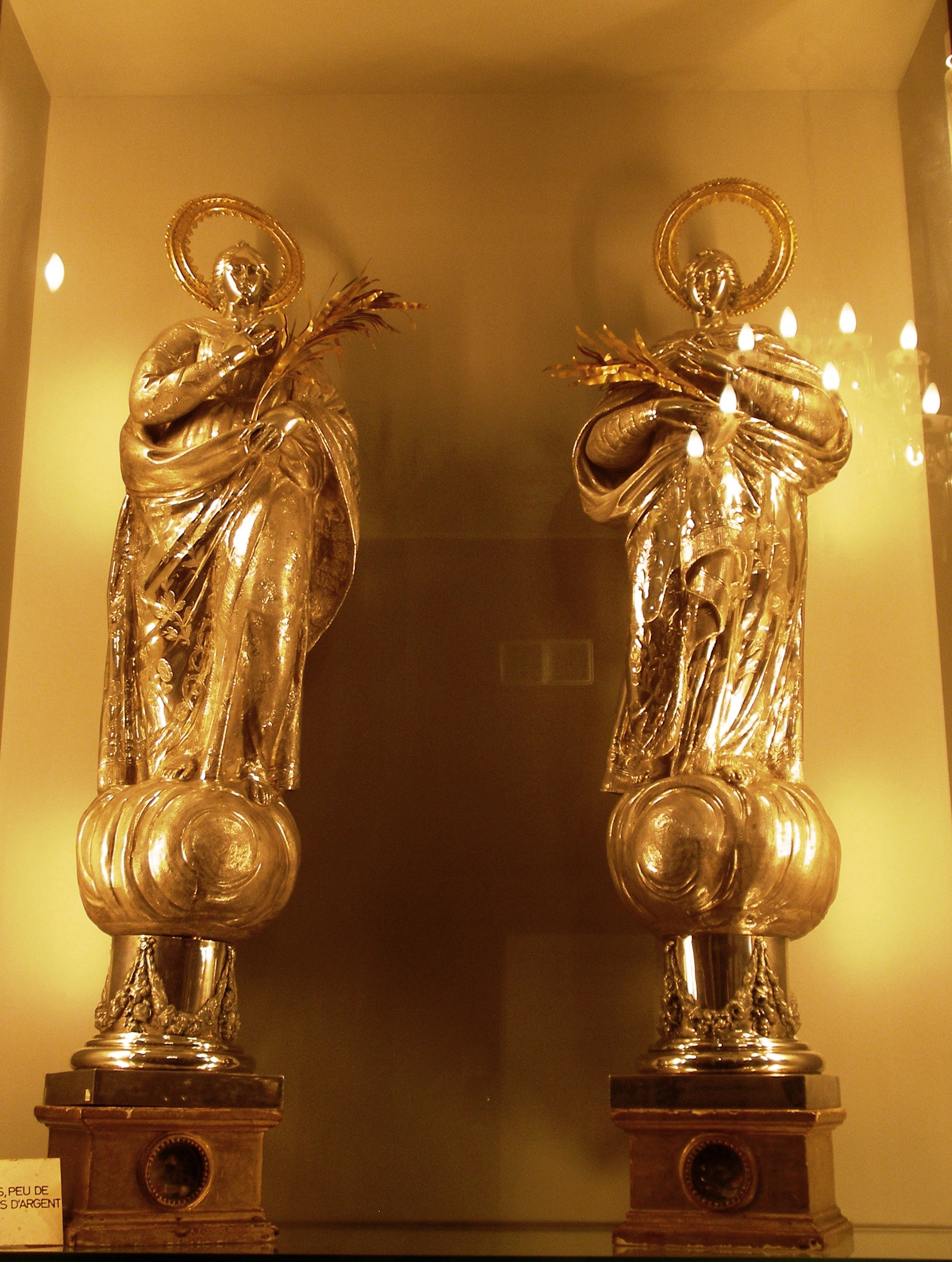 Escultures-reliquiaris de les santes Juliana i Semproniana a la Basílica de Santa Maria de Mataró